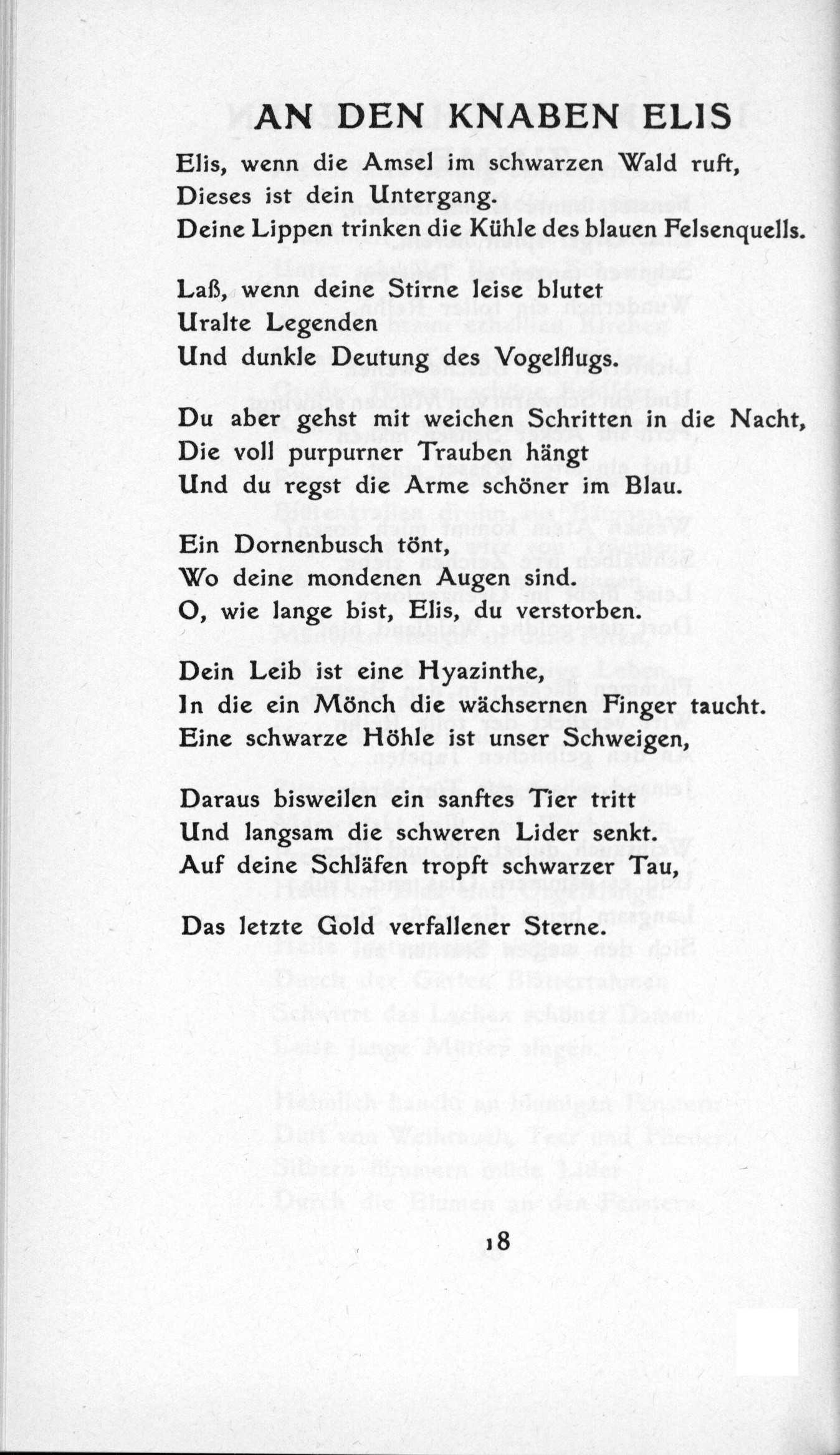 This is a scan of the historical document: Gedichte